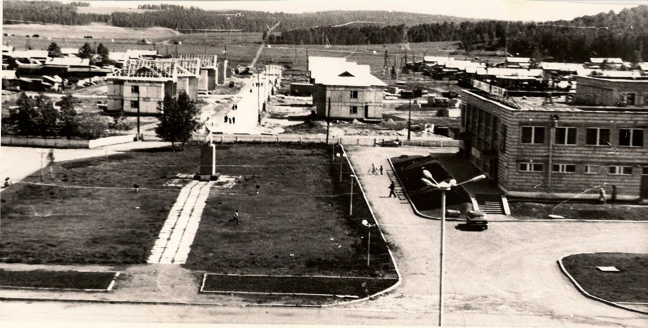 Old urya